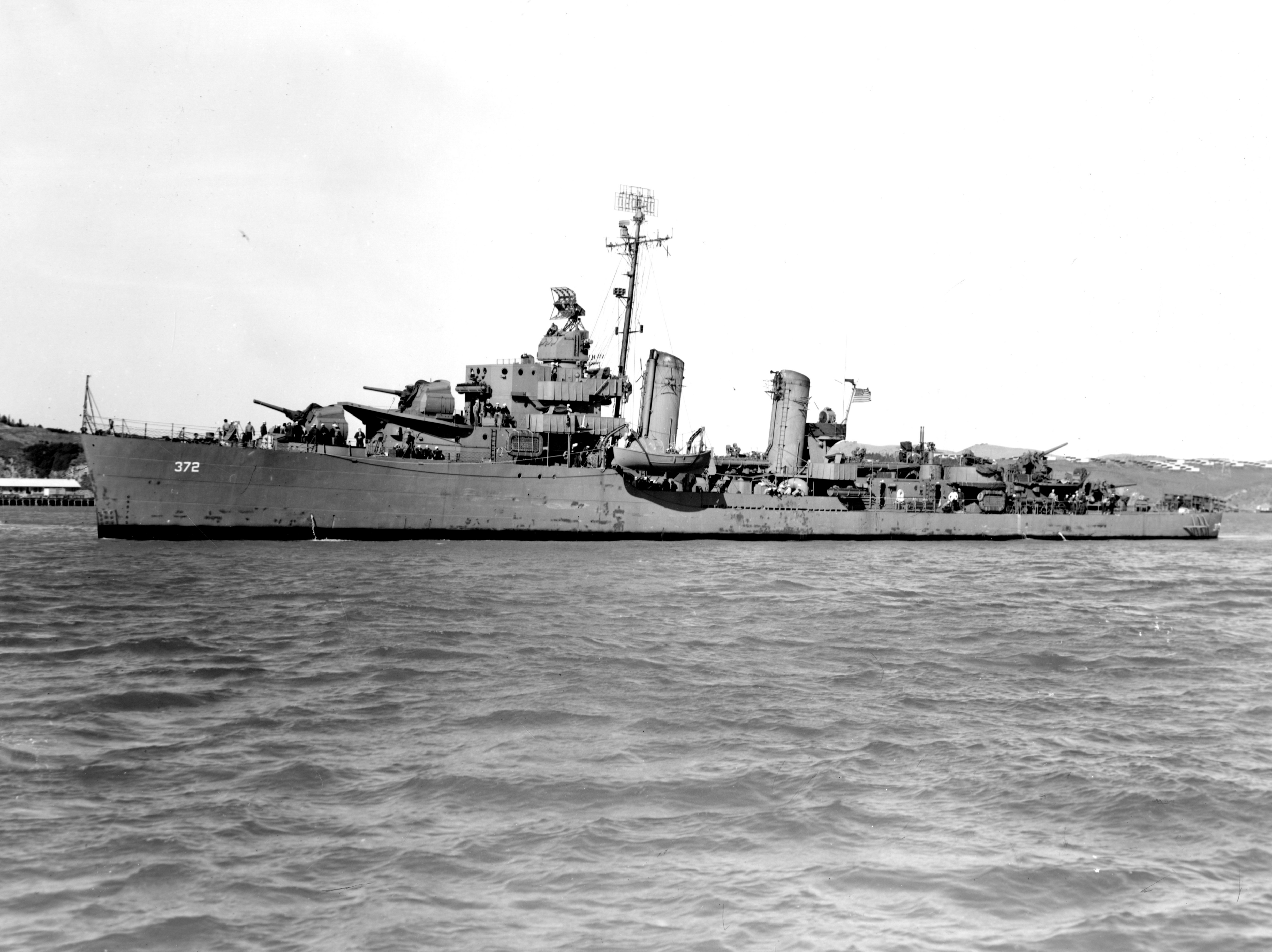 The U.S. Navy desroyer USS Cassin (DD-372) off the Mare Island Navy Yard, California (USA), 26 February 1944. The ship, which had been wrecked in the 7 December 1941 Japanese attack on Pearl Harbor, has just completed a total reconstruction, with her original machinery and main battery installed in a new hull and superstructure.